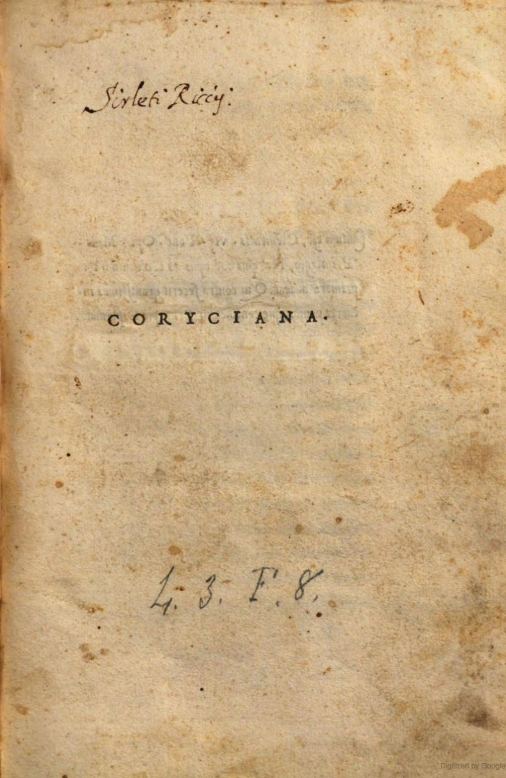 Blosius Palladius, ed., Coryciana, 1524 title page